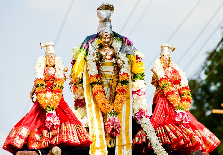 Lord Murugan with Deivaanai (on right of image) and Valli (on left of image). Statue in Thiruvila